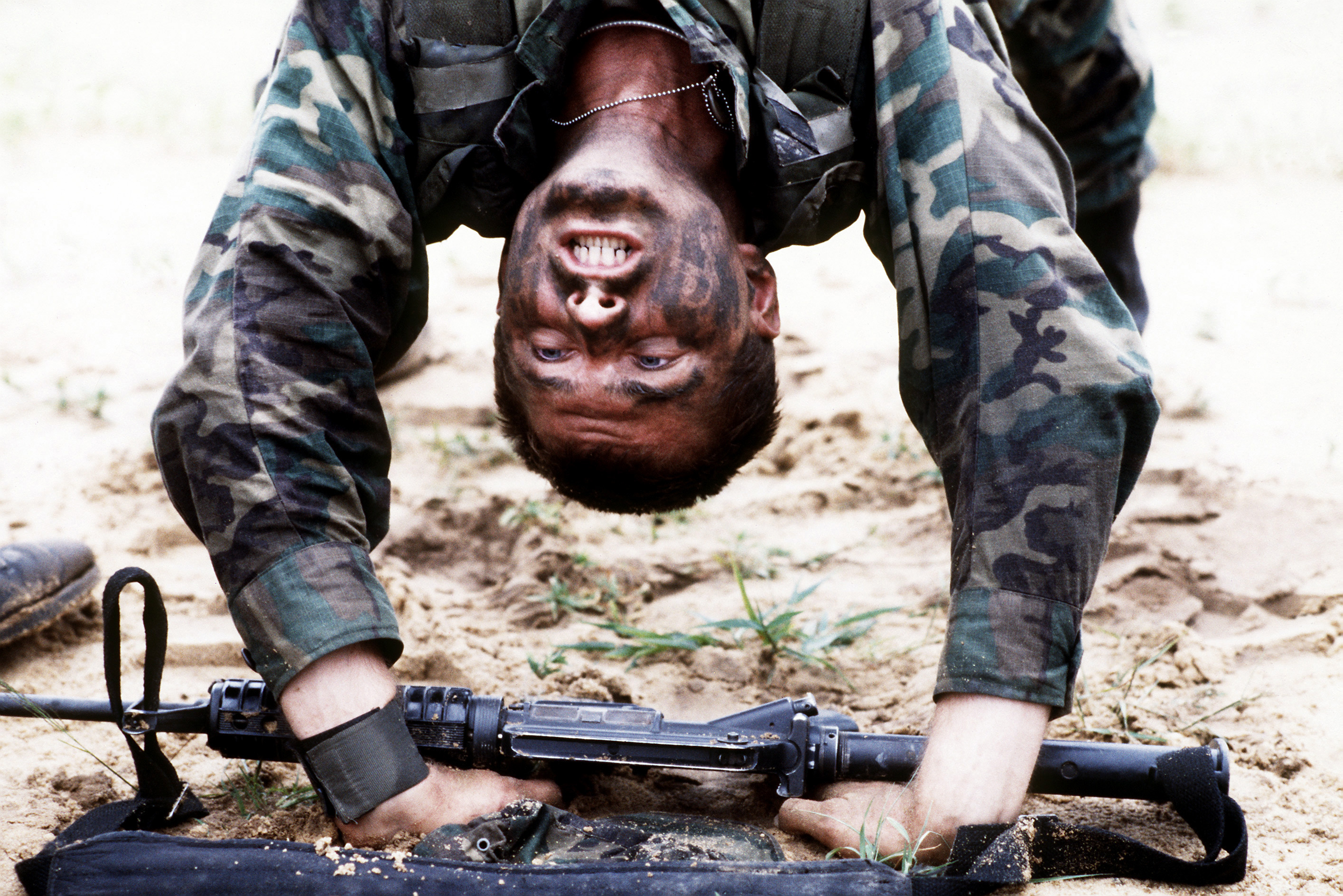 Combat Control School student, holding a XM-117 submachine gun, is participating in daily physical training. The students will become Red Berets upon their graduation. Location: POPE AIR FORCE BASE, NORTH CAROLINA (NC) UNITED STATES OF AMERICA (USA)